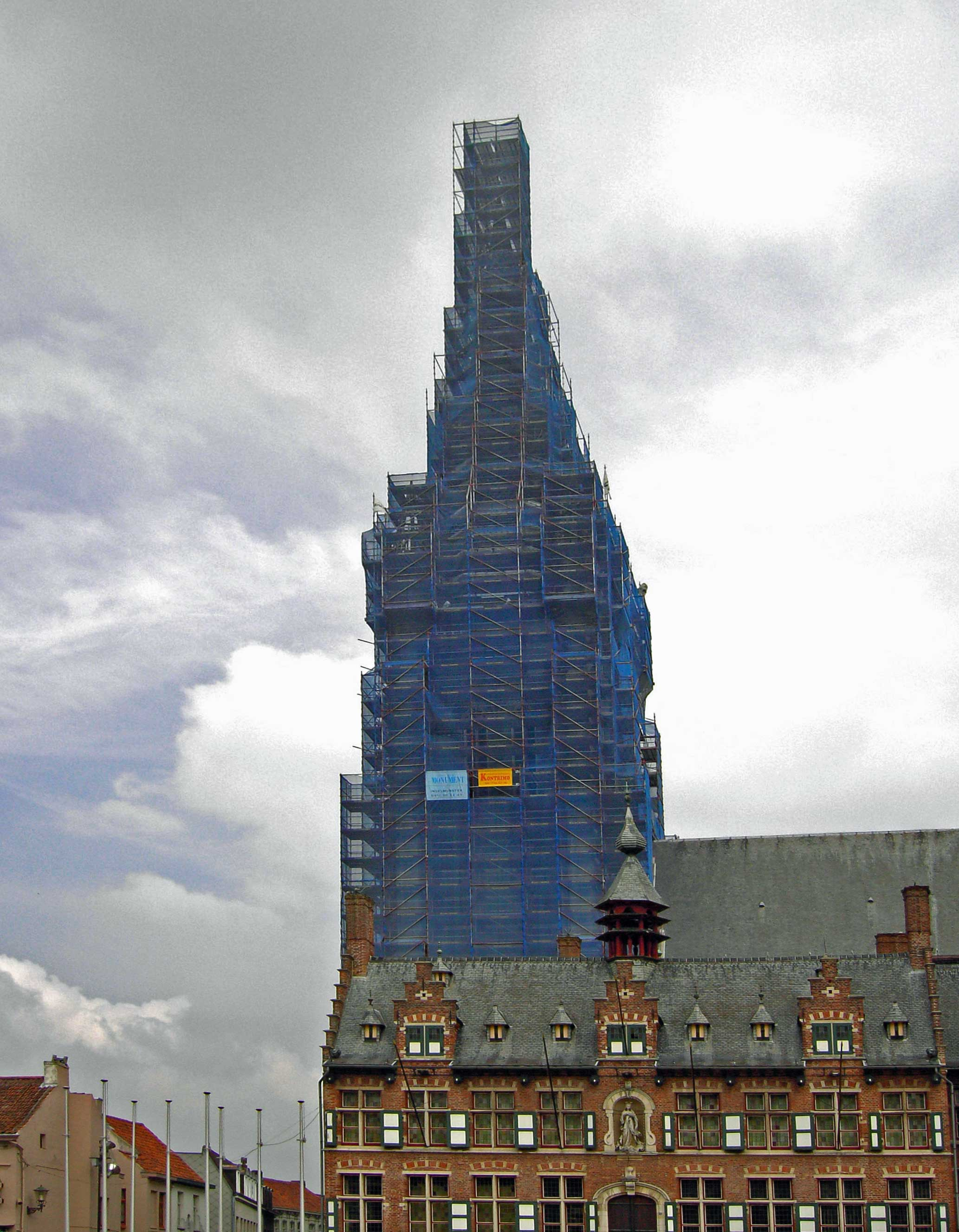 Church of Saint Vincent in Eeklo. Eeklo, East Flanders, Belgium